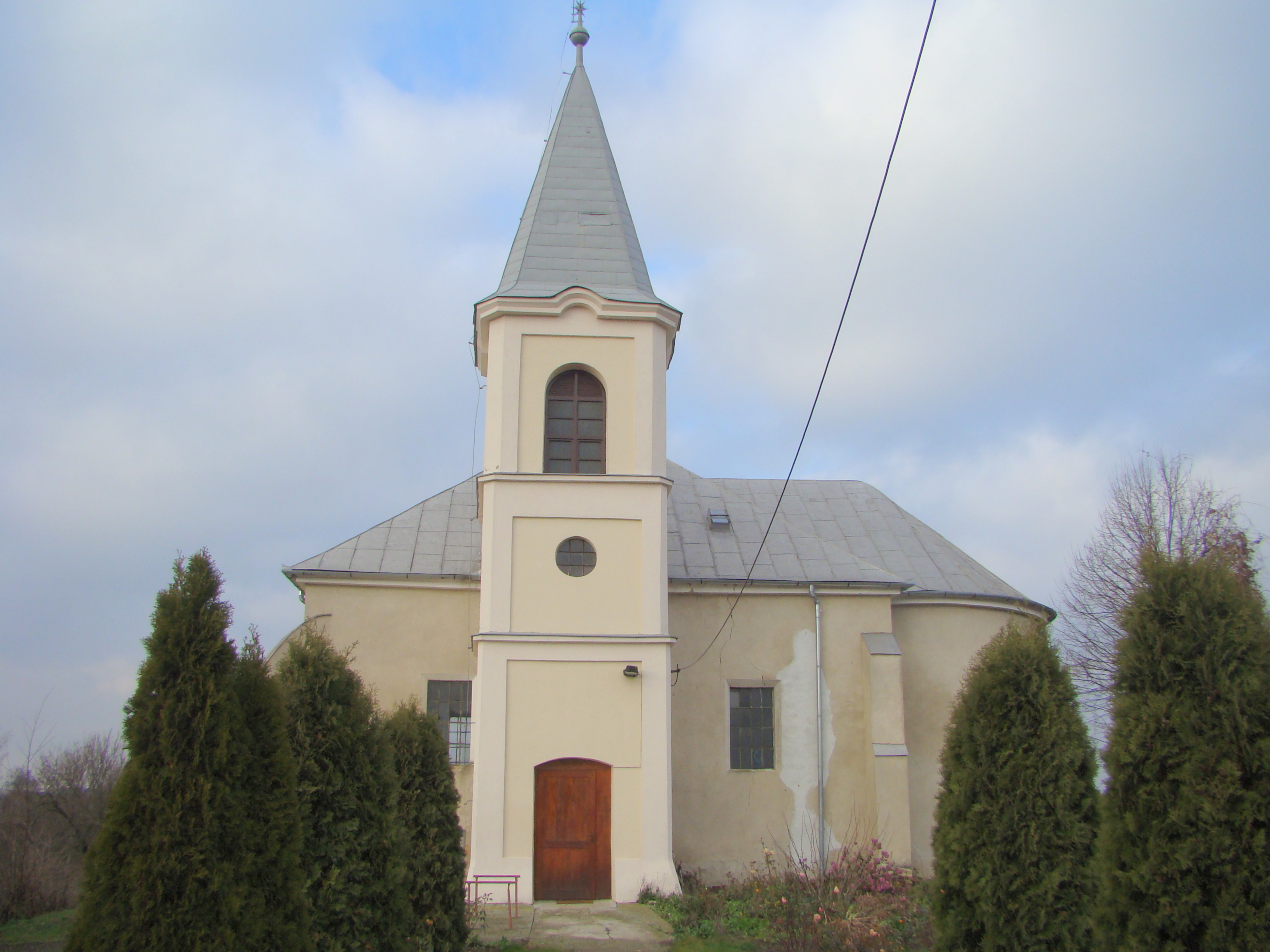 Reformed church in Parhida (Pelbárthida), Bihor county, Romania